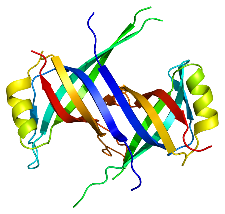 Structure of the SSBP1 protein. Based on PyMOL rendering of PDB 1s3o.